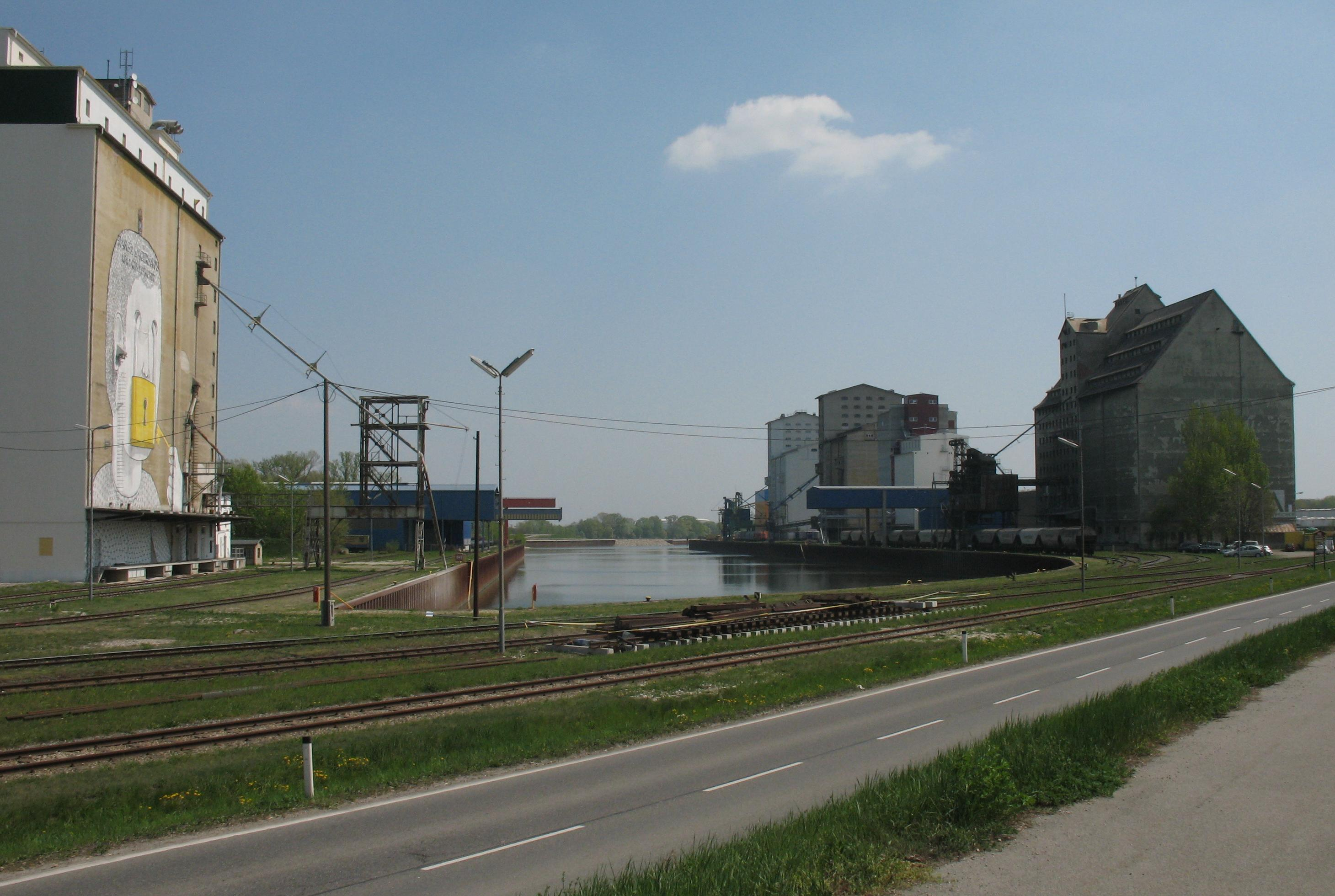 Harbour near Albern in Vienna, Austria